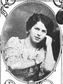 Young white woman with dark wavy hair in an oval frame; she has one hand on her cheek, and one arm crossing her chest and resting on the opposite shoulder.